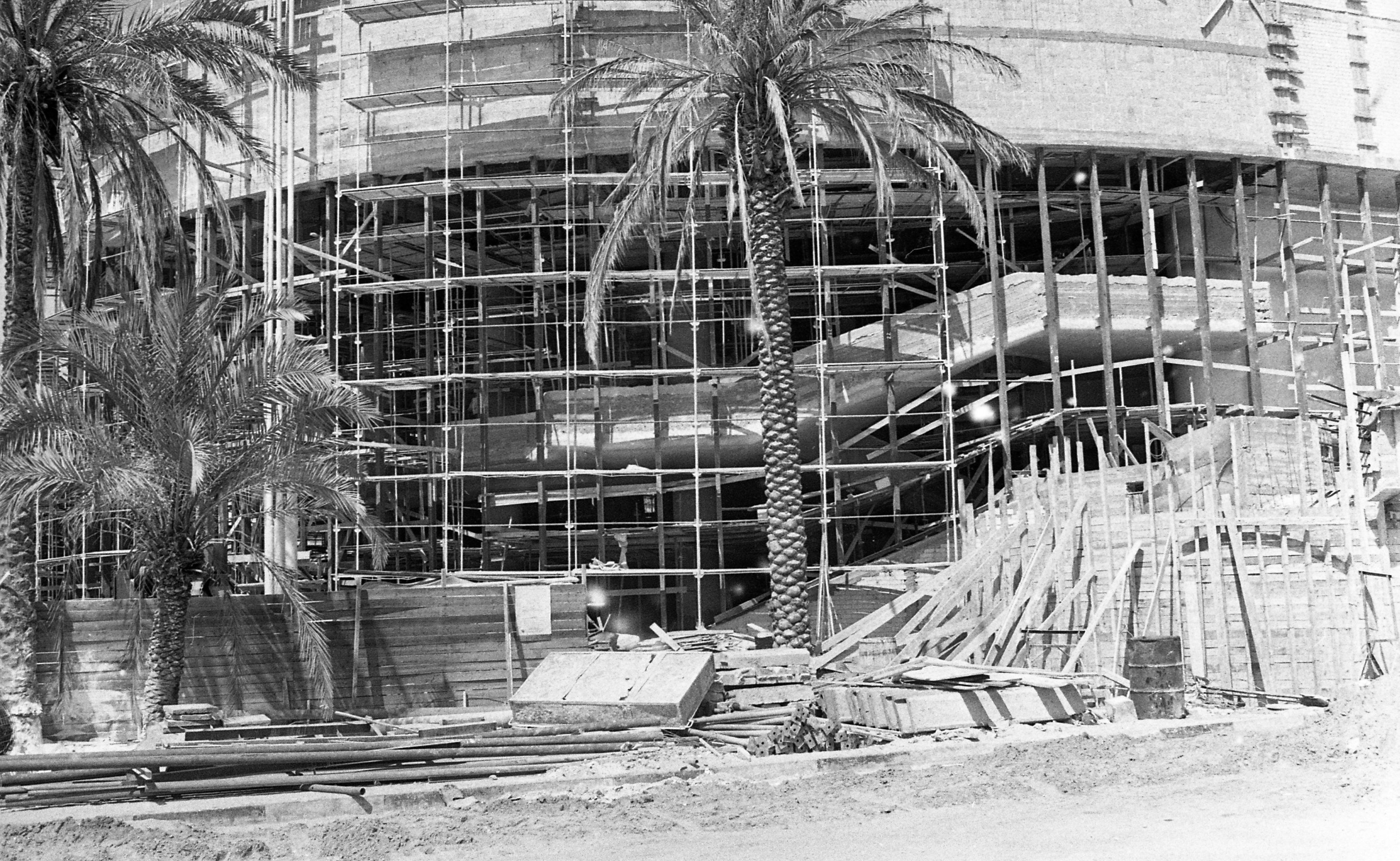 Habima theatre.